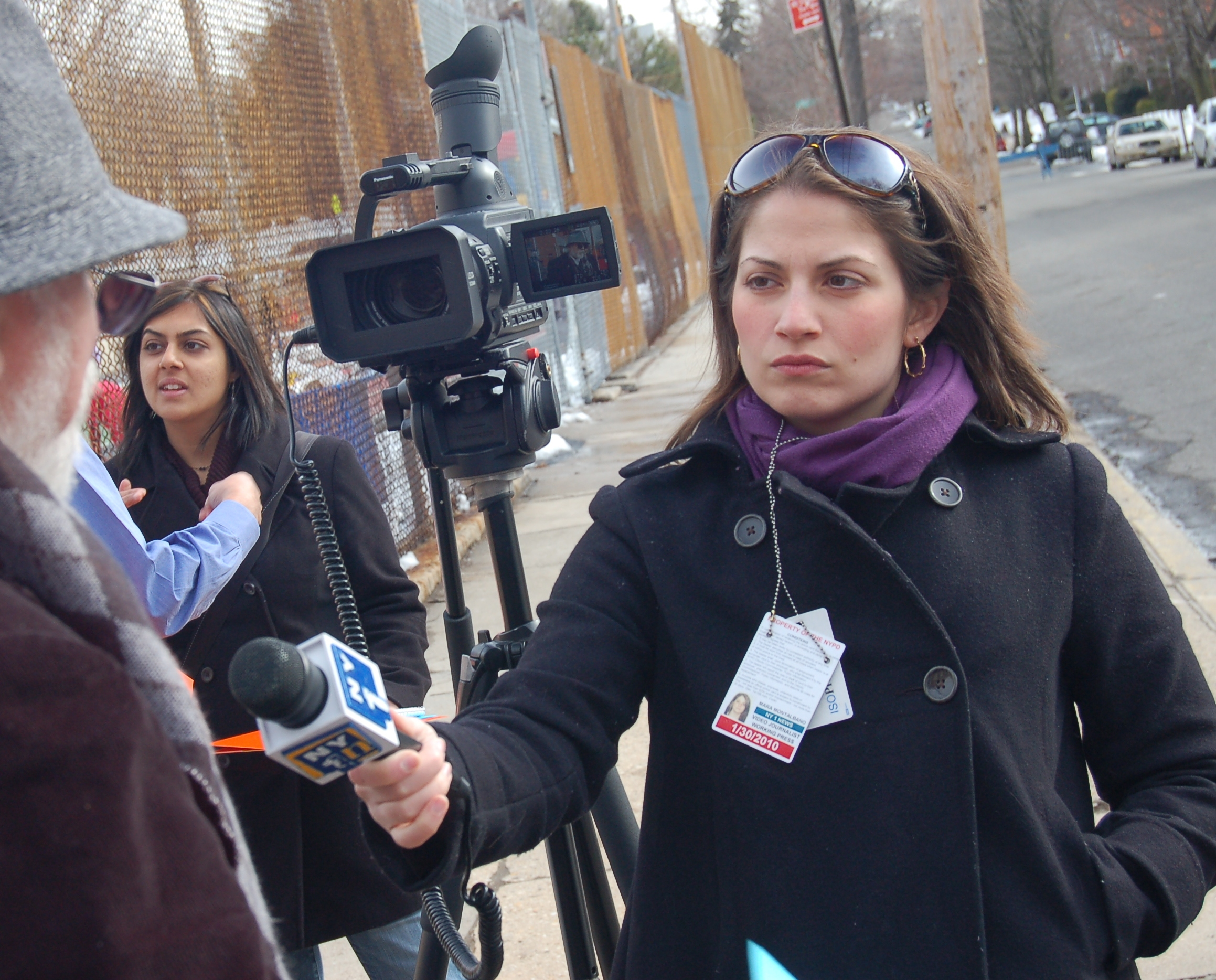 NY1 reporter Mara Montalbano.